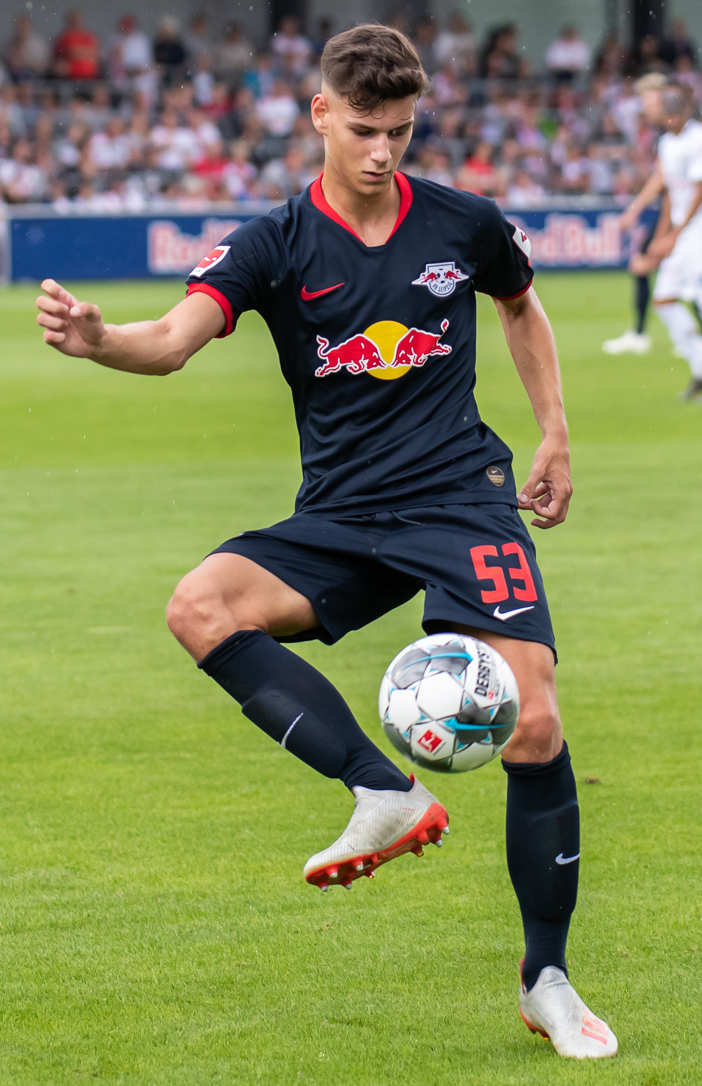 trial and friendly soccer match RB Leipzig vs. FC Zürich 2019-07-12; Tom Krauß (RB Leipzig, 53)